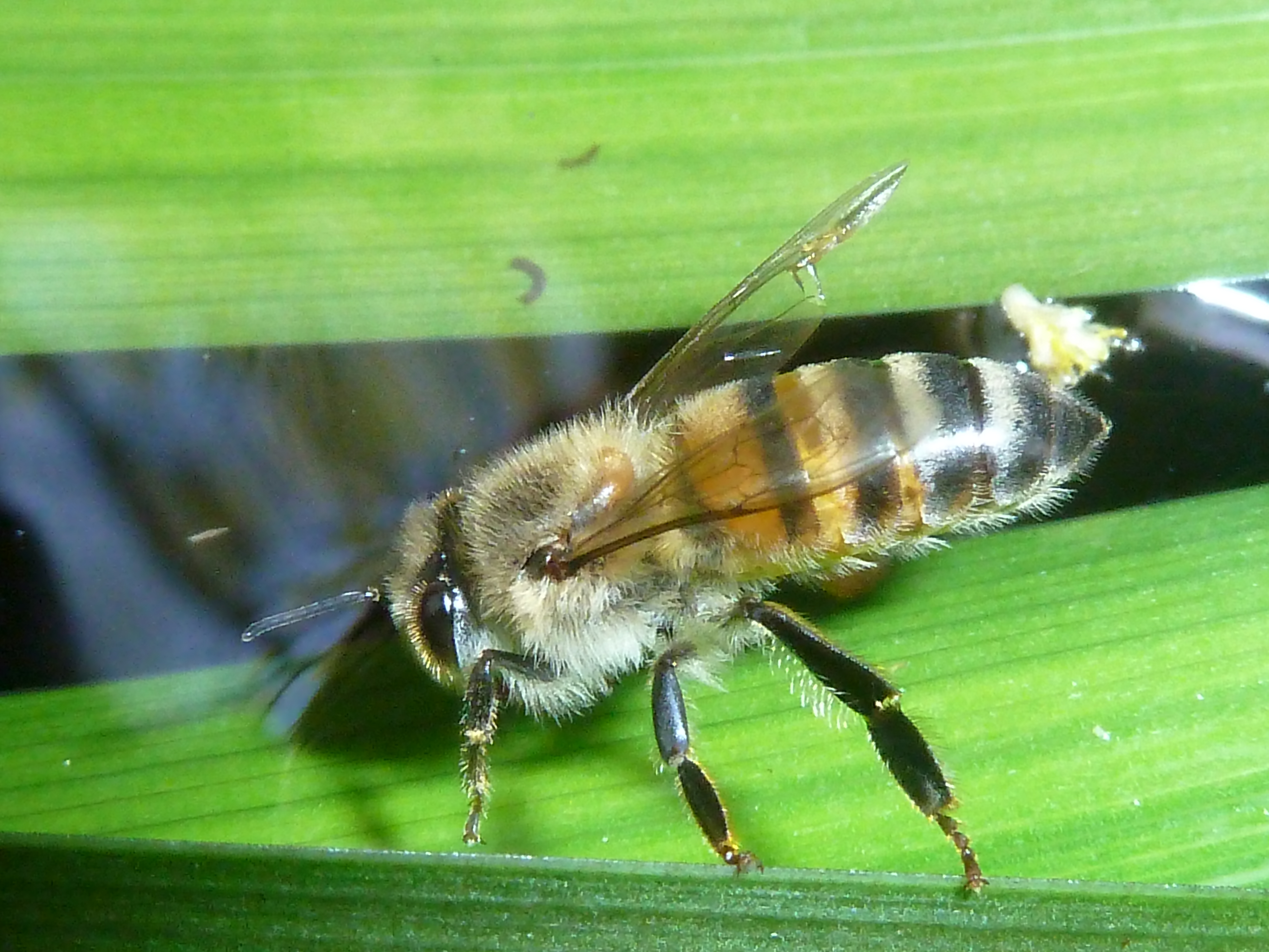 African honey bee drinking water at Phakama private lodge, Dinokeng Game Reserve, South Africa